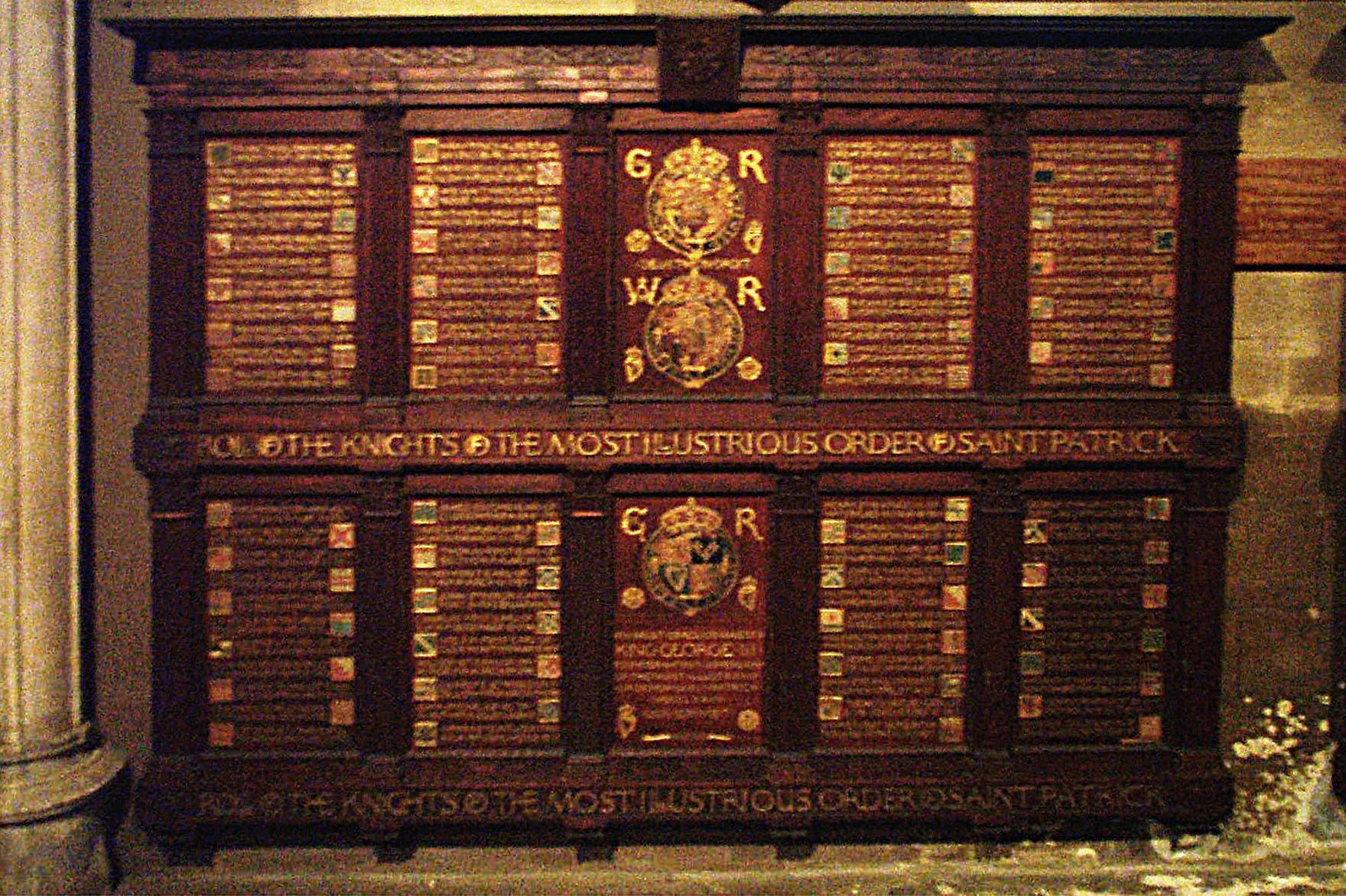 Order of St Patrick panel (one of two) in St Patrick's Cathedral, Dublin. The panels, listing the names of the Knights of the Order of St Patrick, were made by (or for) Sir Nevile Wilkinson, former Ulster King of Arms, and were originally located in the Kildare Street Club. They were subsequently moved to the Cathedral.